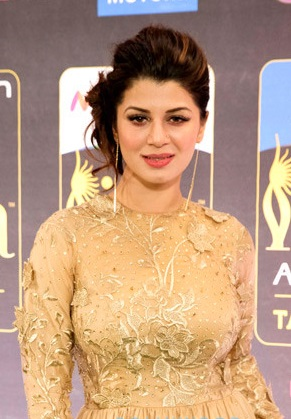 Kainaat Arora